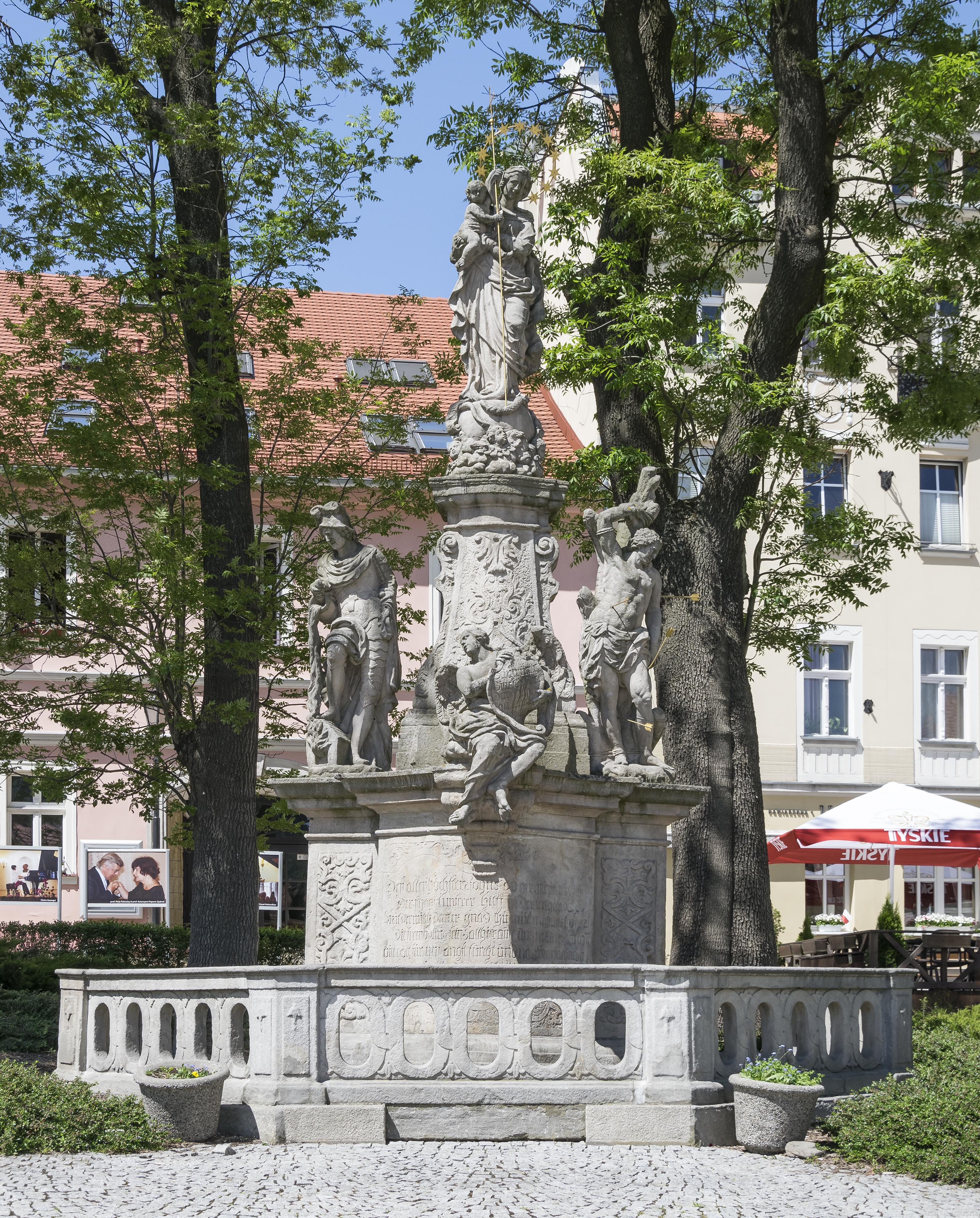 Marian column in Duszniki-Zdrój